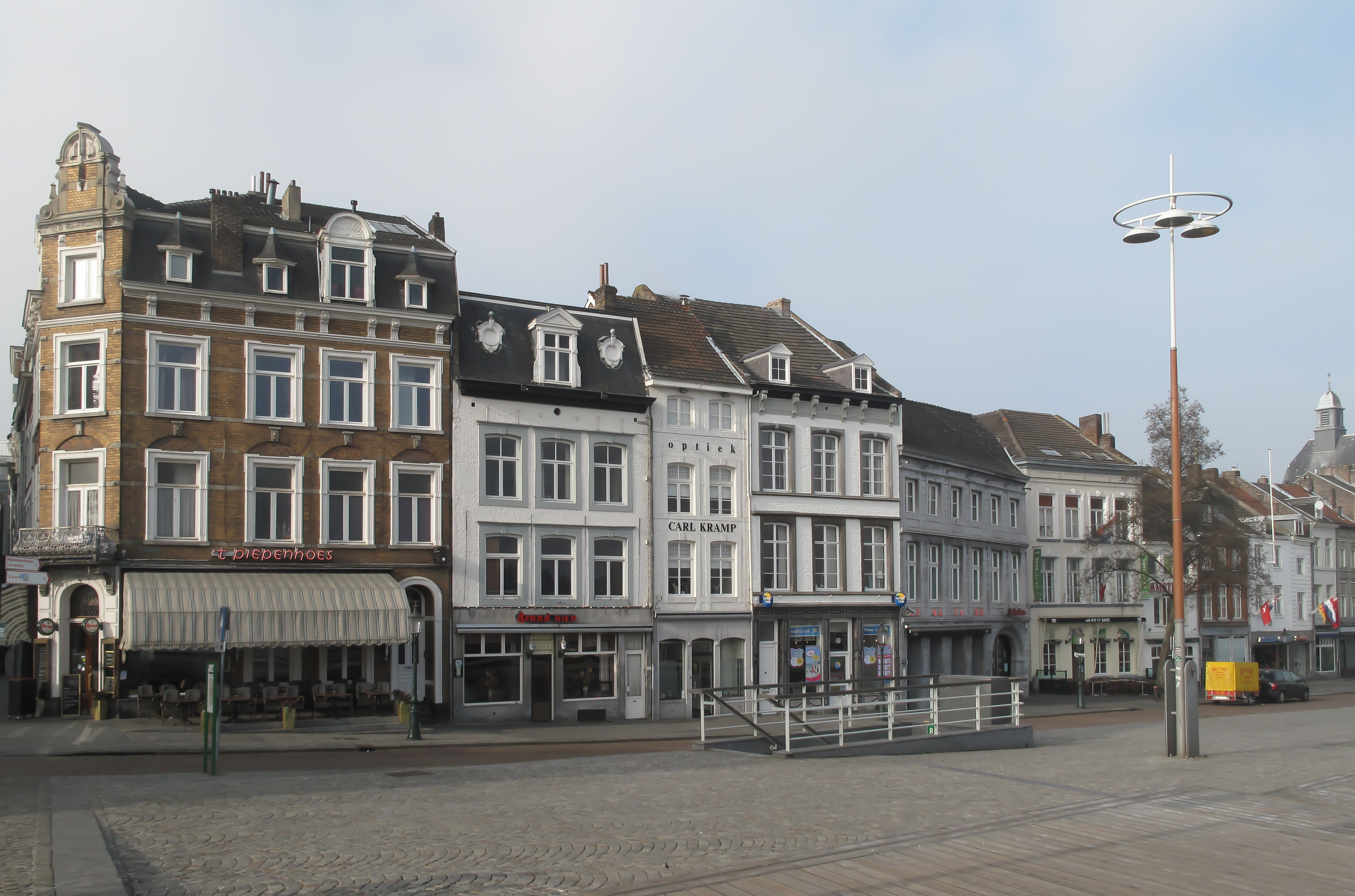 Maastricht, houses near the bridge: de Servaasbrug (near the center)